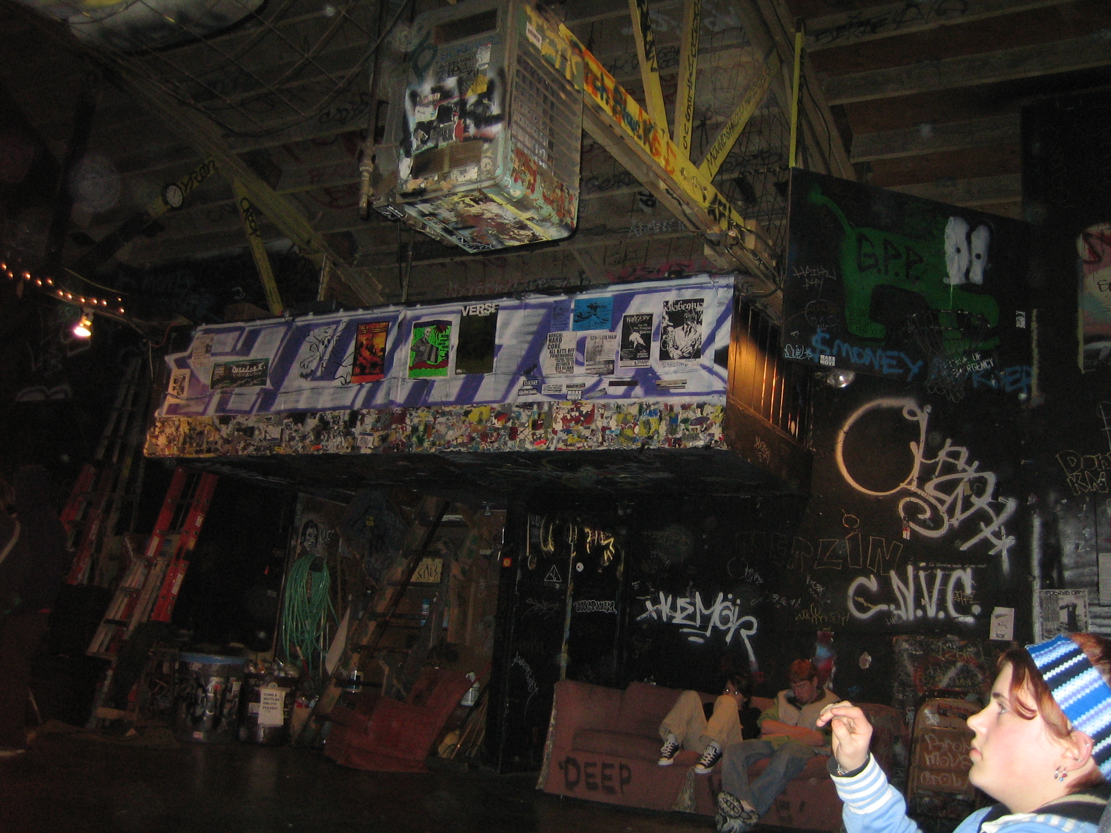 924 Gilman Street, Berkeley, California